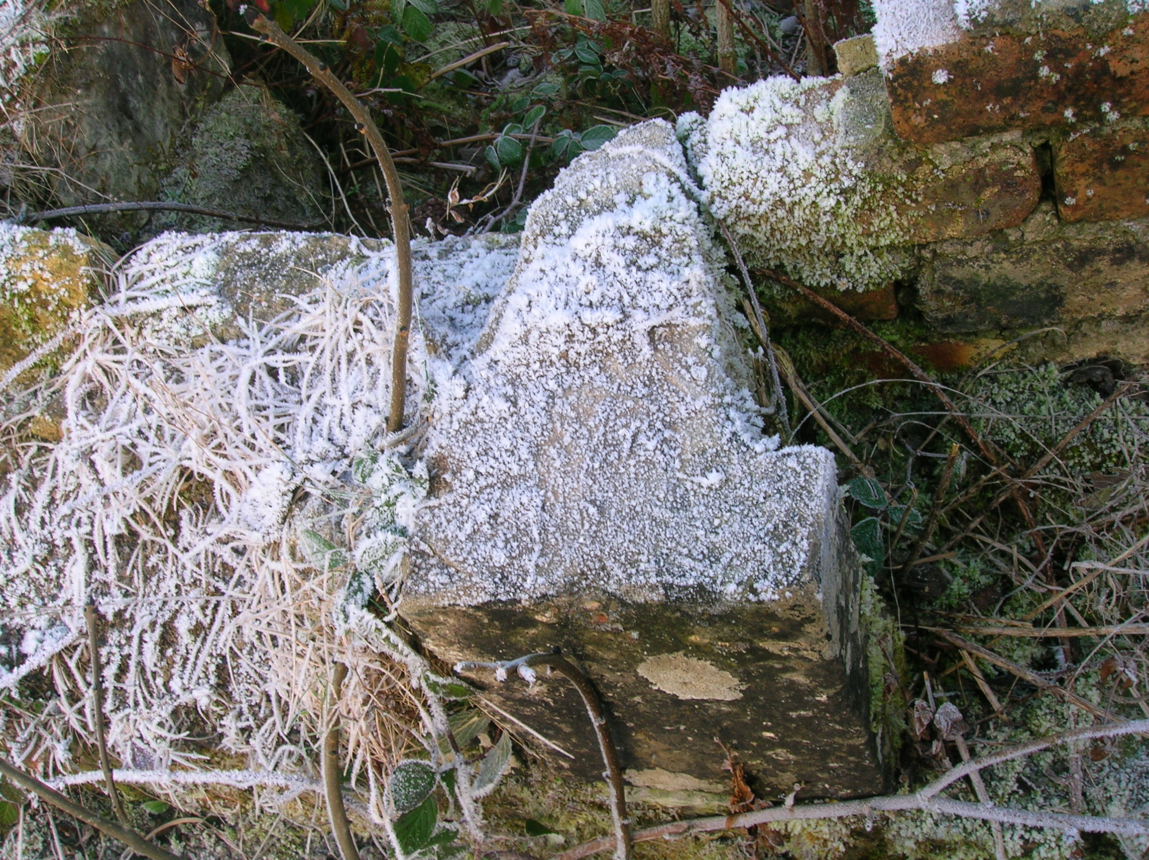 Detail of a window surround at Millburn, Benslie, North Ayrshire, Scotland.